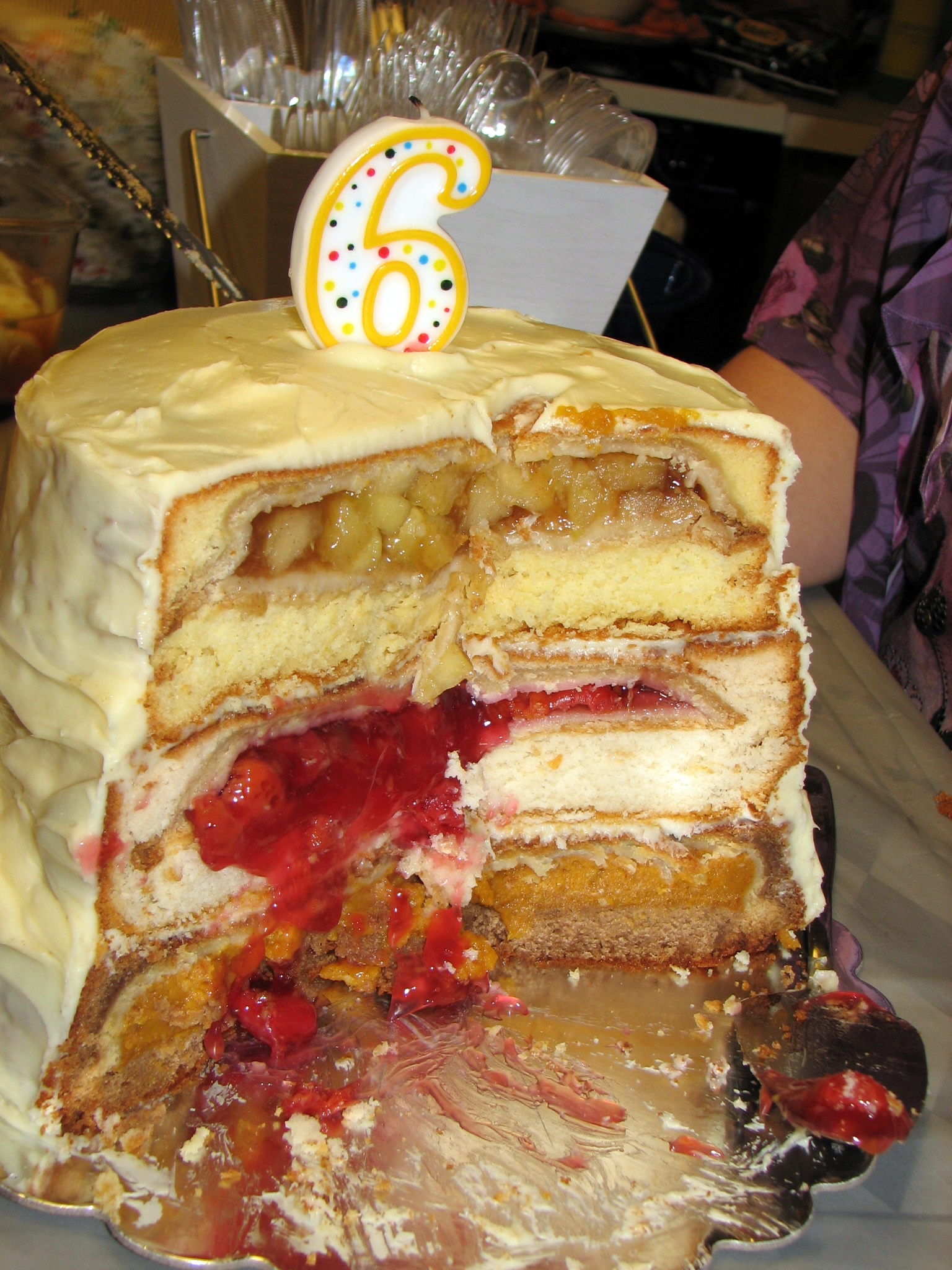 A photo of a Cherpumple